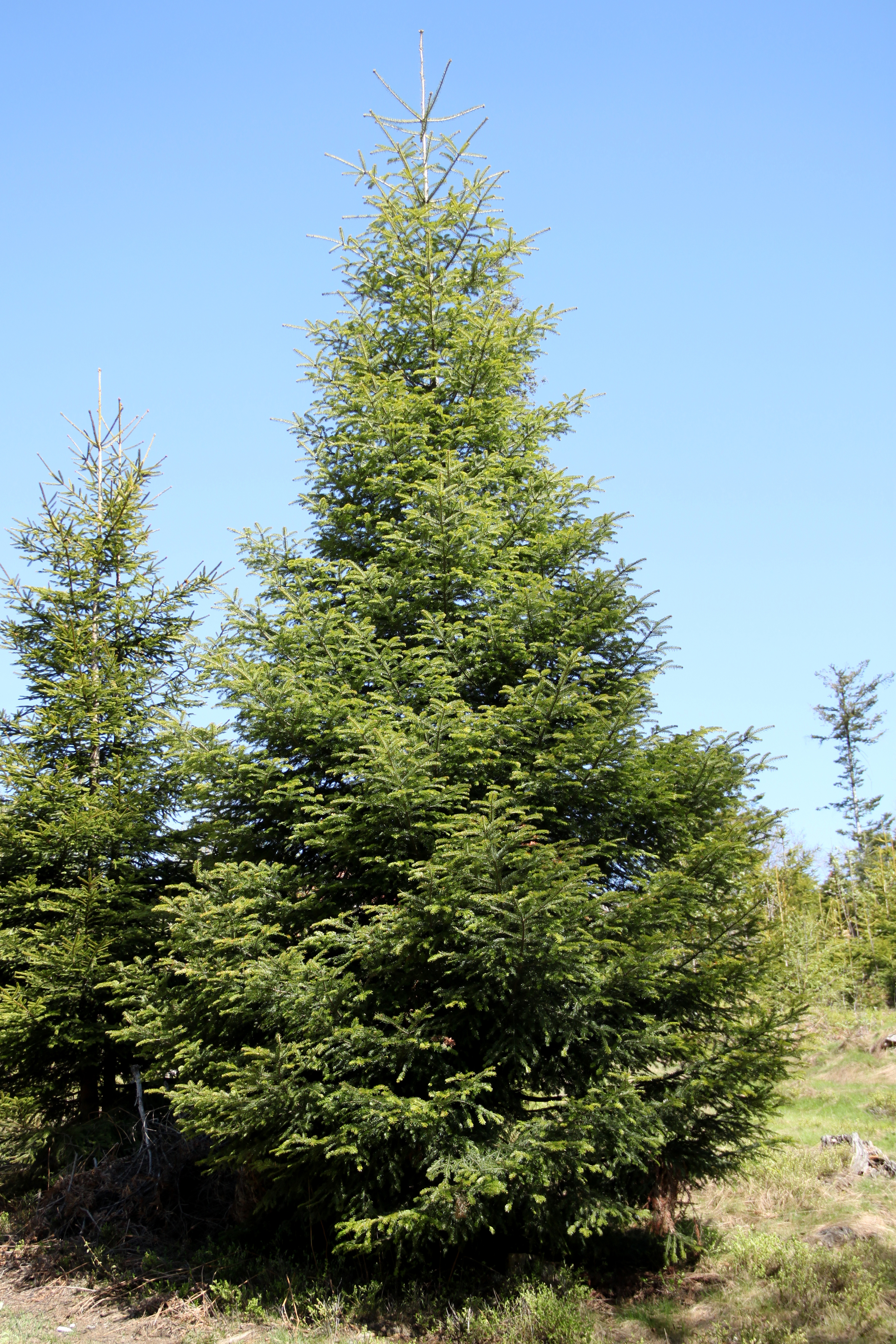 Silver Fir (Abies alba) ,Silesian Beskids, Poland